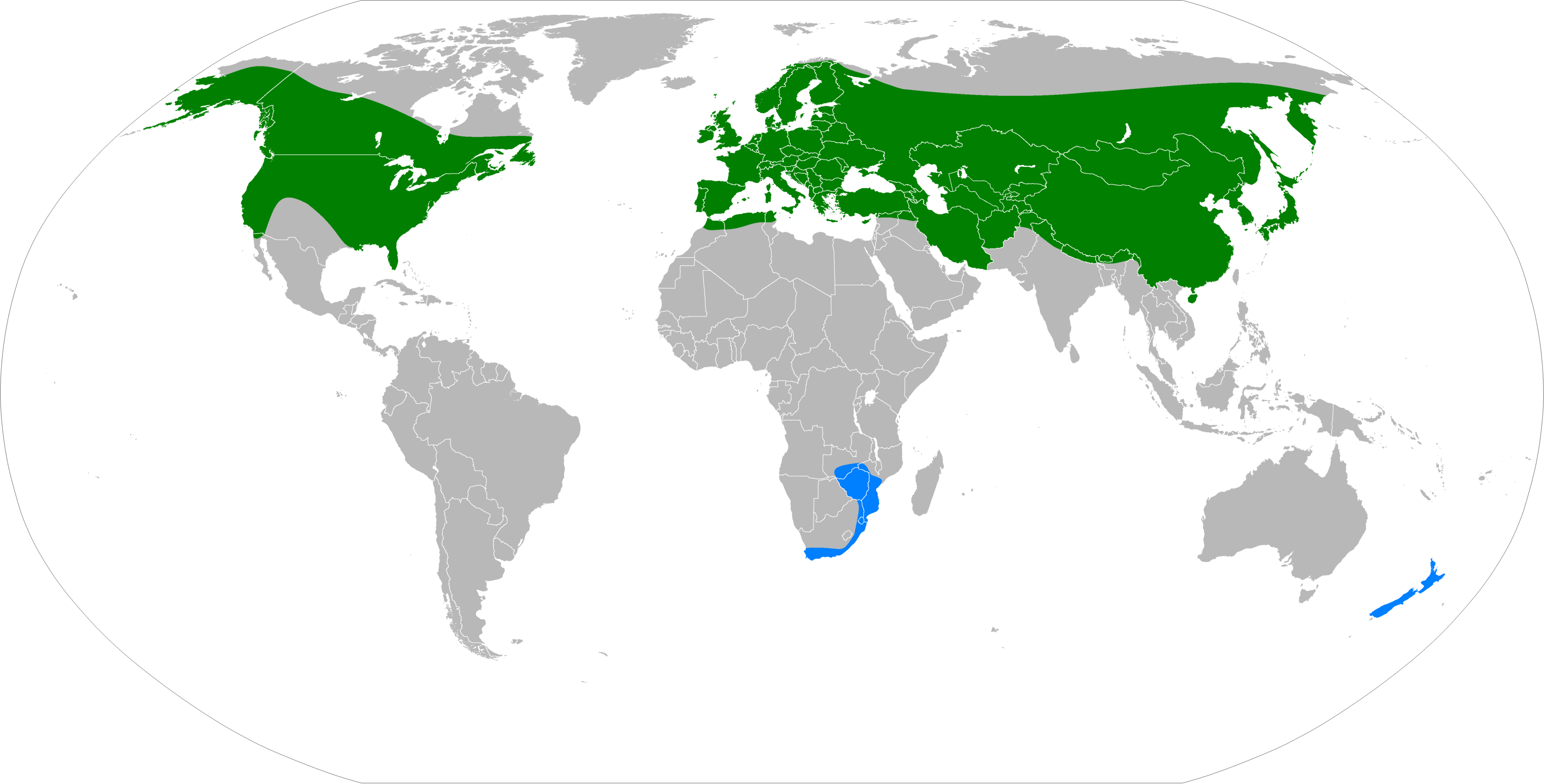 Assumed Distribution of the King Bolete (Boletus edulis) based on records and the distribution of suitable habitats and trees.